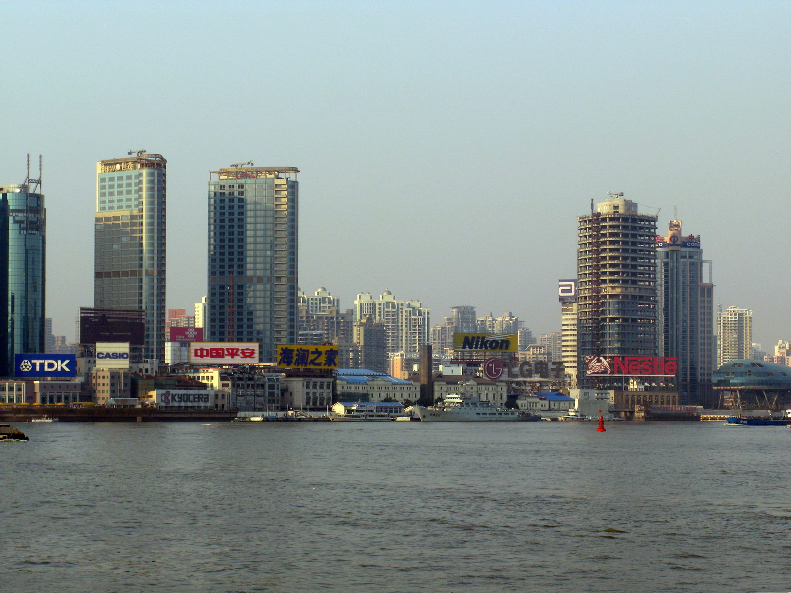 Hongkou District in 2008